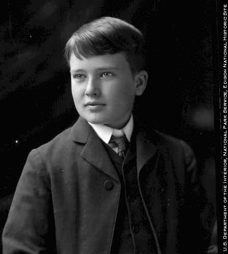 Charles Edison circa 1900